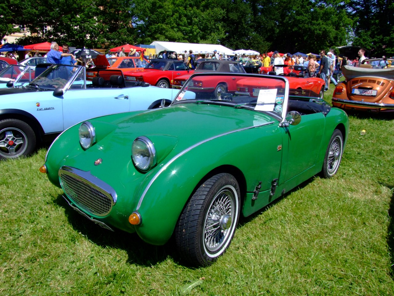 Austin Healey Sprite 1958